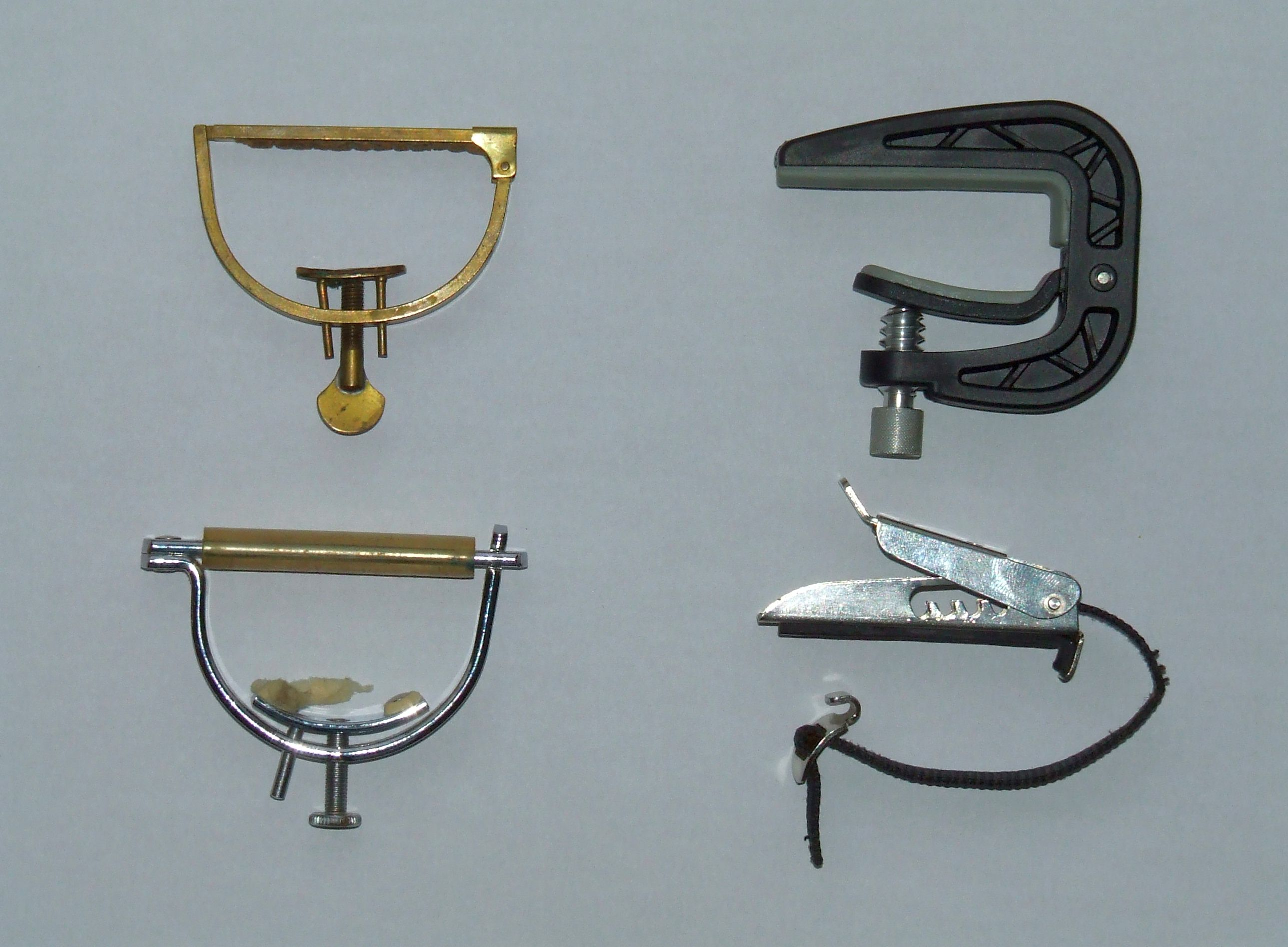 Four different types of capo.